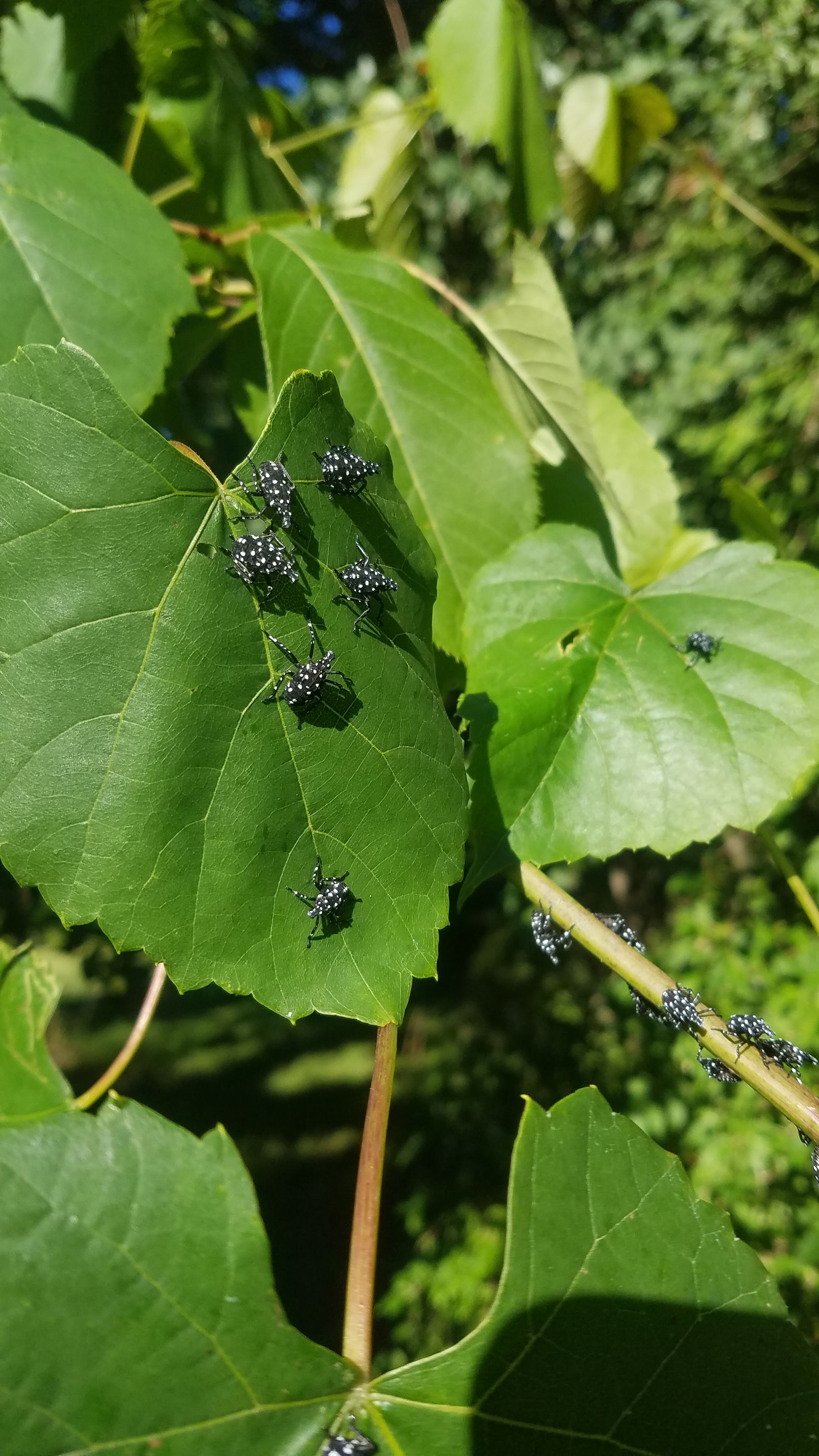 Young Spotted Lanternflies on Fox Grapes